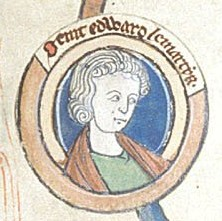 Edward the Martyr